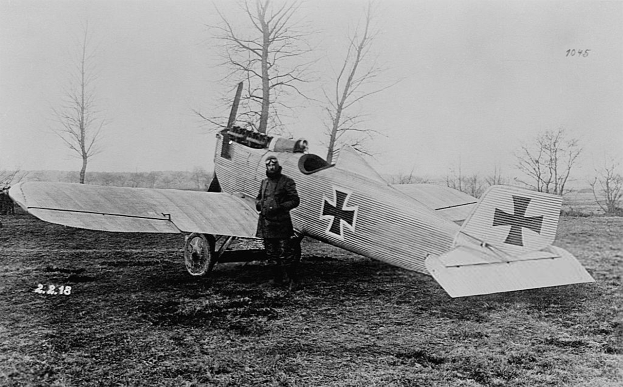 PictionID:43638225 - Catalog:16_004586 - Title:Junkers J-7 modified Pete Bowers photo - Filename:16_004586.TIF - - - - - - - Image from the Ray Wagner Collection. Ray Wagner was Archivist at the San Diego Air and Space Museum for several years and is an author of several books on aviation --- ---Please Tag these images so that the information can be permanently stored with the digital file.---Repository: San Diego Air and Space Museum